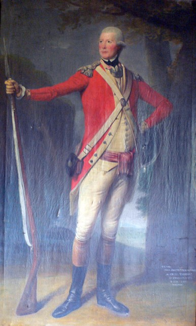 Portrait of Colonel John Anstruther